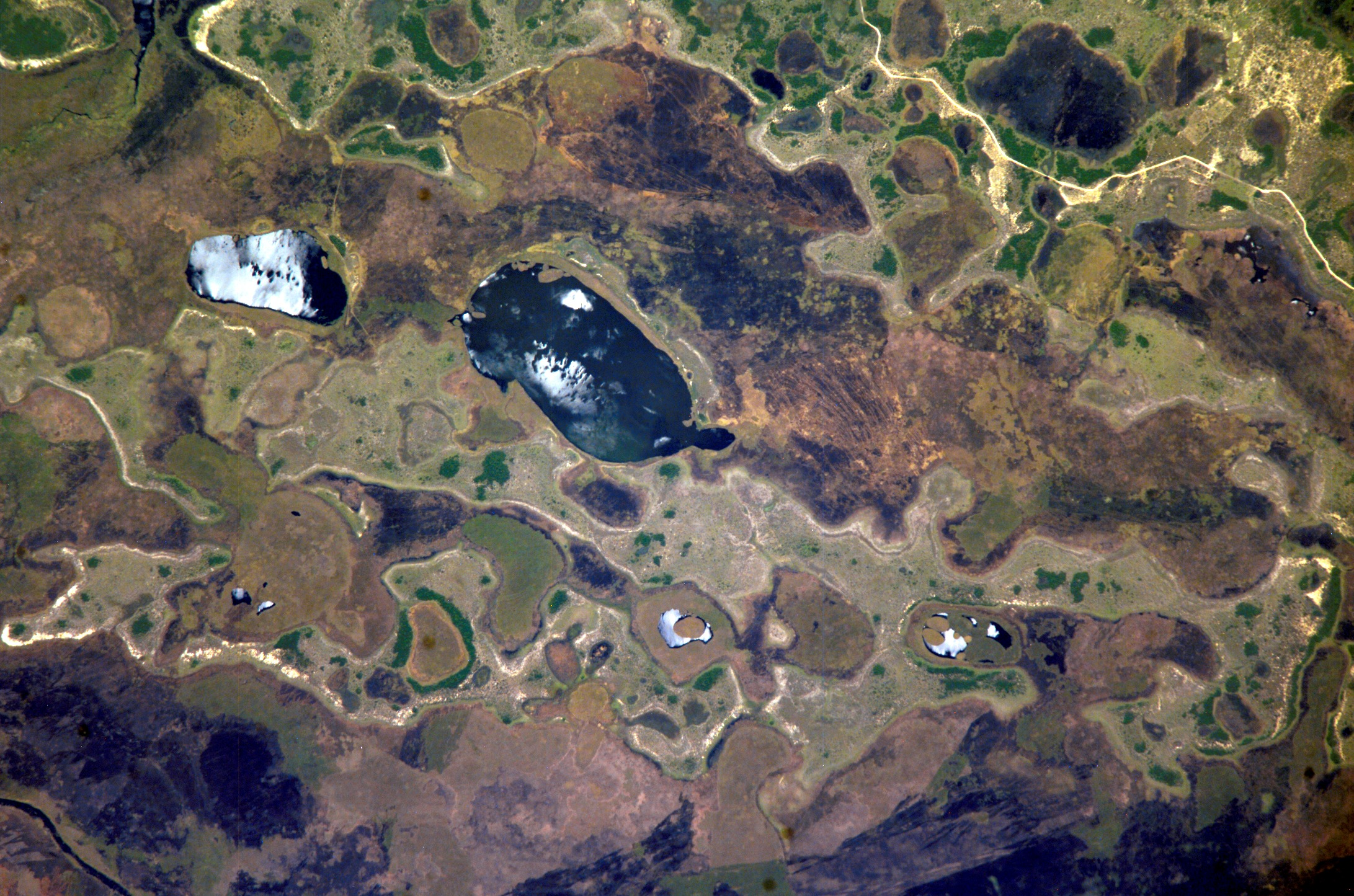 Ibera Wetlands, province of Corrientes, Argentina, one of the largest wetland areas in South America (the second largest after Brazil's Pantanal). Picture taken from the International Space Station. Ibera Swamp topography in northeast Argentina is featured in this image photographed by an Expedition 10 crewmember on the International Space Station (ISS). The central lake in this image is one of hundreds in the Ibera swamplands that were formed by South America’s second largest river, the Parana. Although this great river now lies 120 kilometers to the north, its channel has swung over a great “inland delta” in the recent geological past, according to NASA scientists studying the Expedition 10 photo collection. This and other lakes were captured in this photograph as the sunglint point passed over this remote but vast swampland in northeast Argentina. The glint pattern shows winds ruffling the water surfaces. The lakes in this image lie within side channels of the Parana formed when it flowed through this region. The central lake in the image is about 2 kilometers long. Forest, swamp and prairie vegetation types outline the low topography which consists of lakes, low swells and depressions.